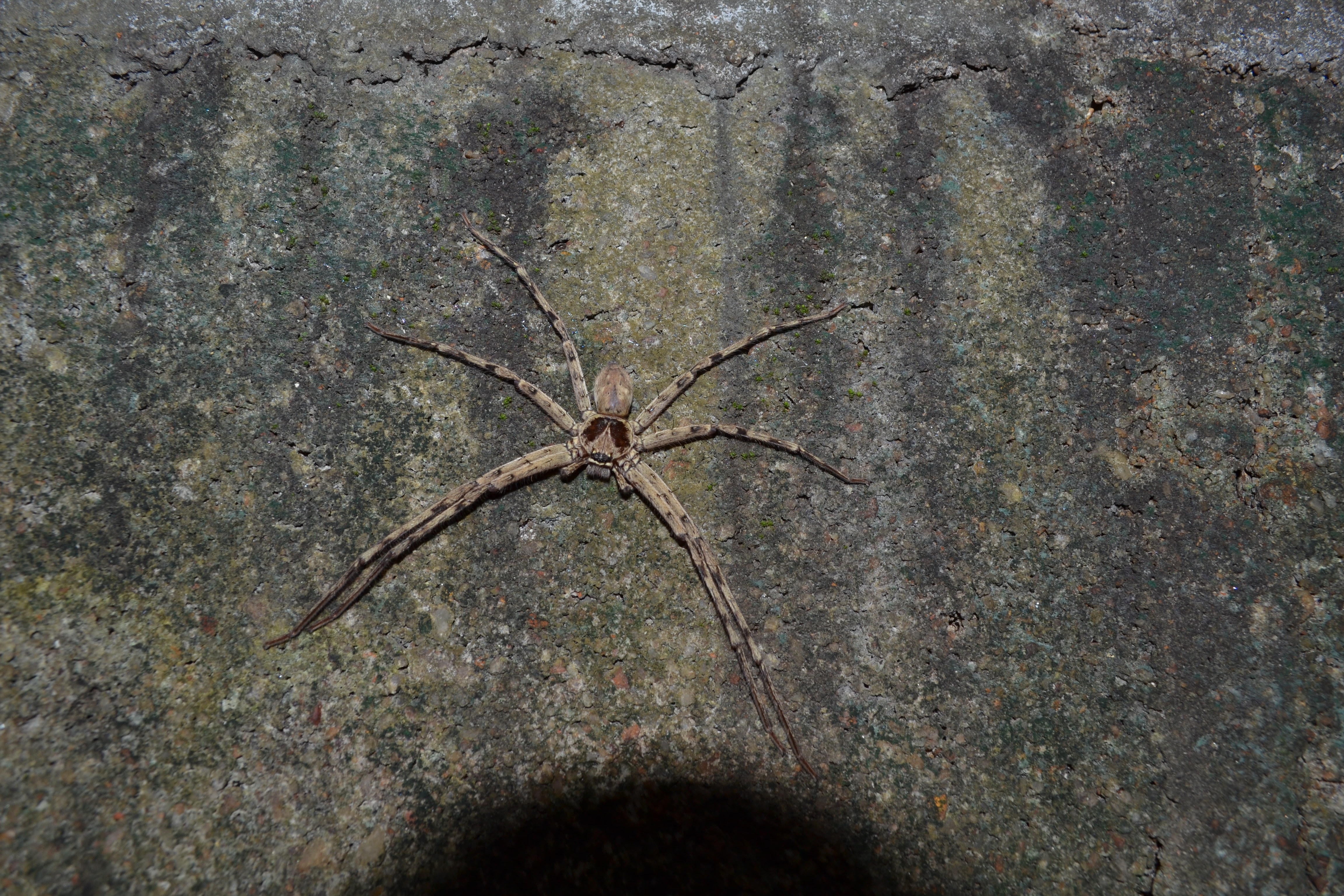 Heteropoda venatoria in Sri Lanka